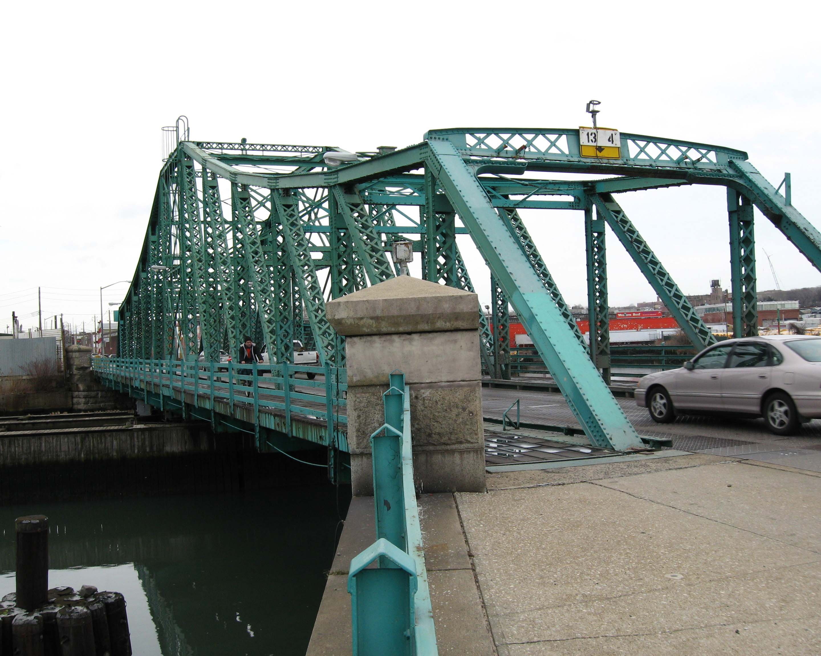 Looking east at Grand Street Bridge carrying Grand Avenue, Queens from Maspeth, Queens across English Kills to become Grand Street, Brooklyn in East Williamsburg, Brooklyn